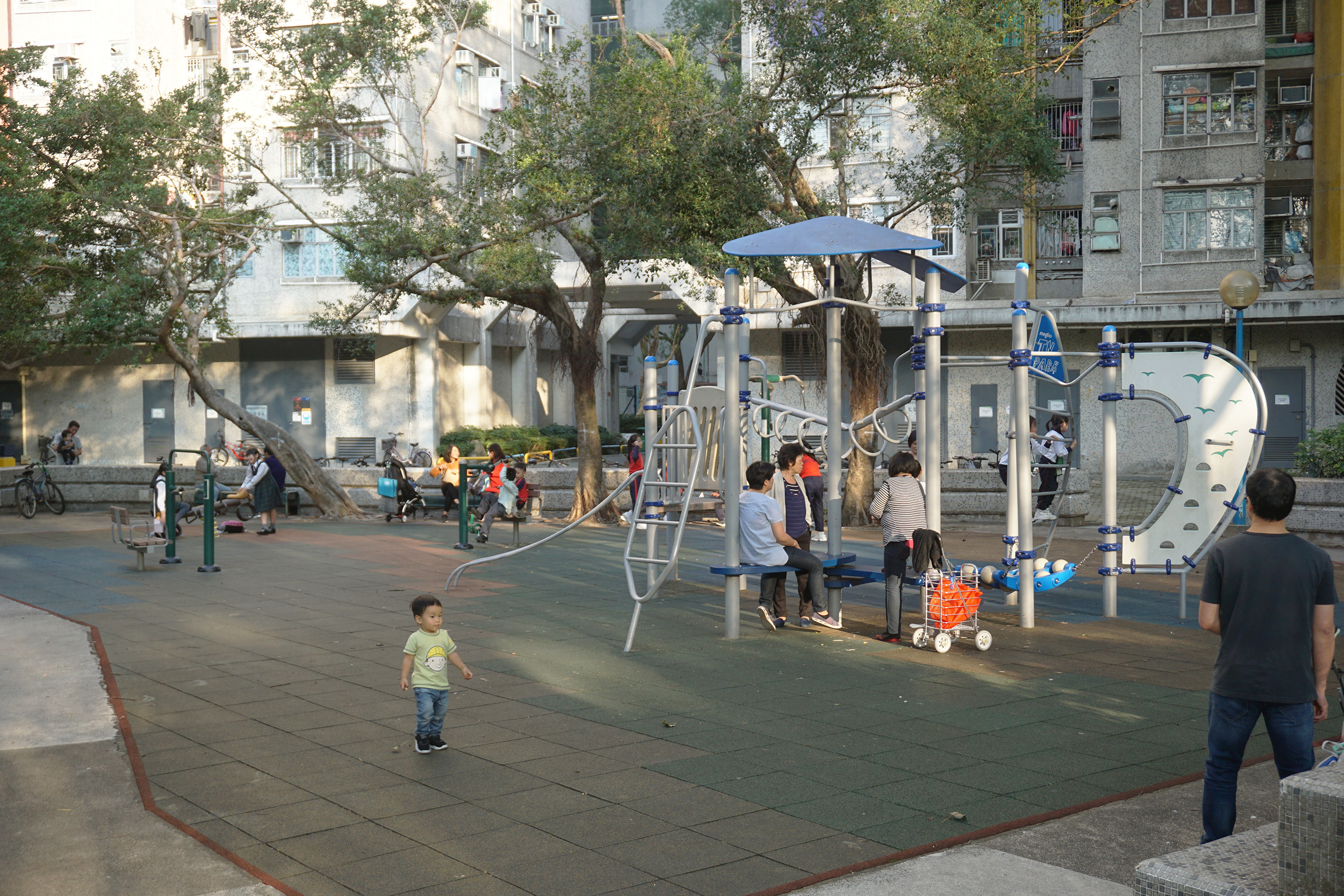 Tin Ping Estate in Sheung Shui, Hong Kong.